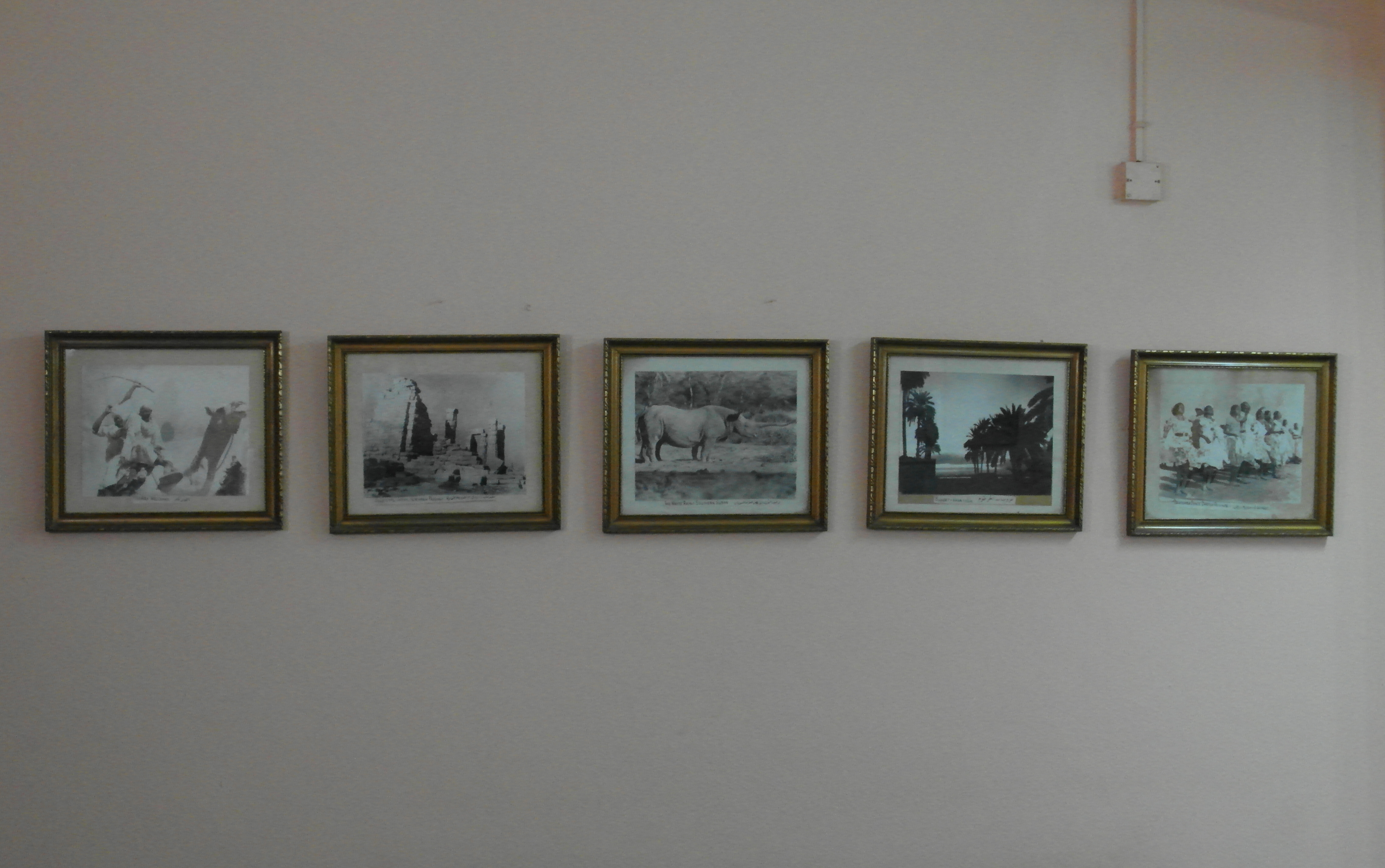 Gallery of historical Sudan photographs in the restaurant of the Acropole Hotel in Khartoum